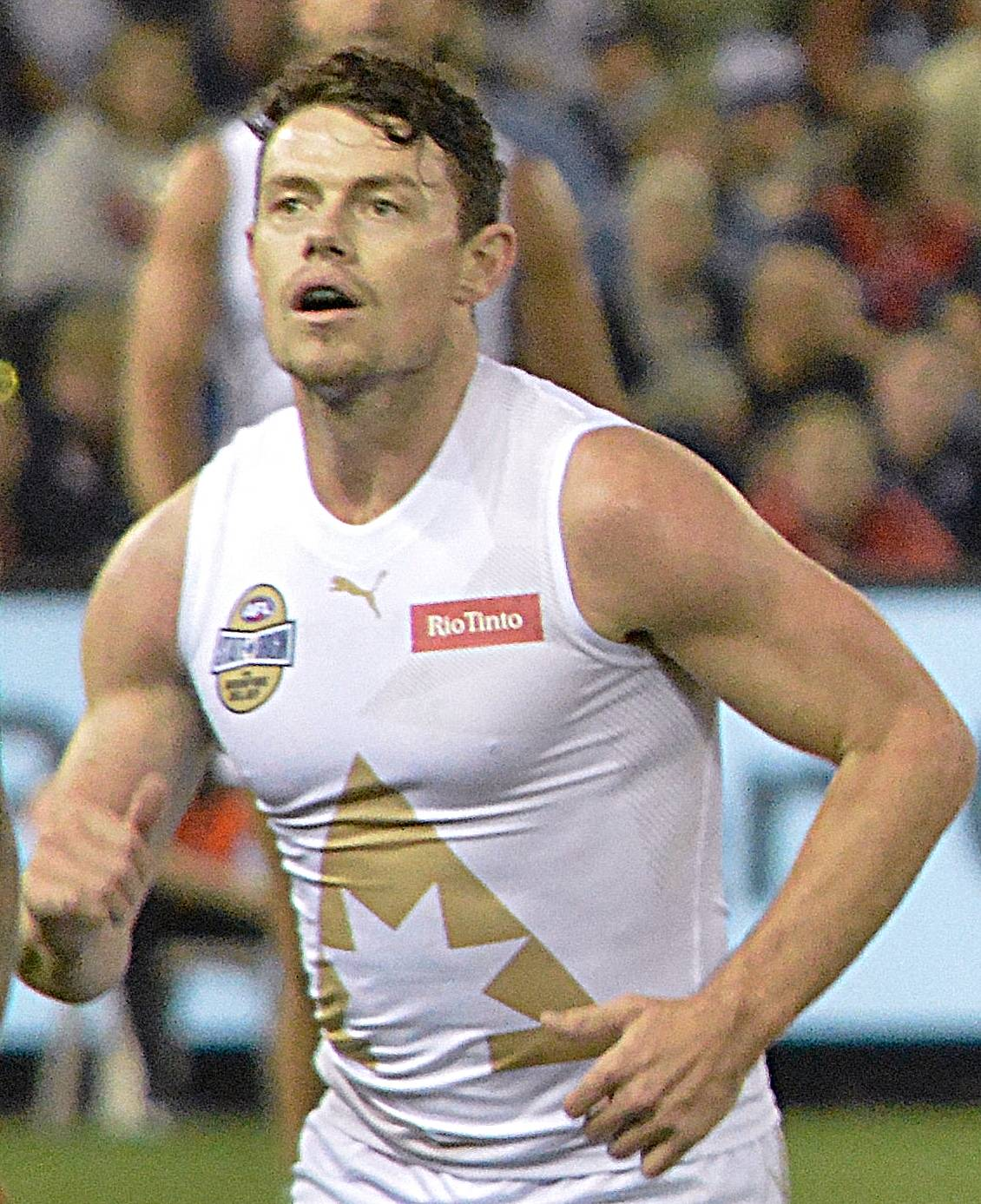 Lachie Neale at the AFL State of Origin for Bushfire Relief Match at Marvel Stadium in February 2020.